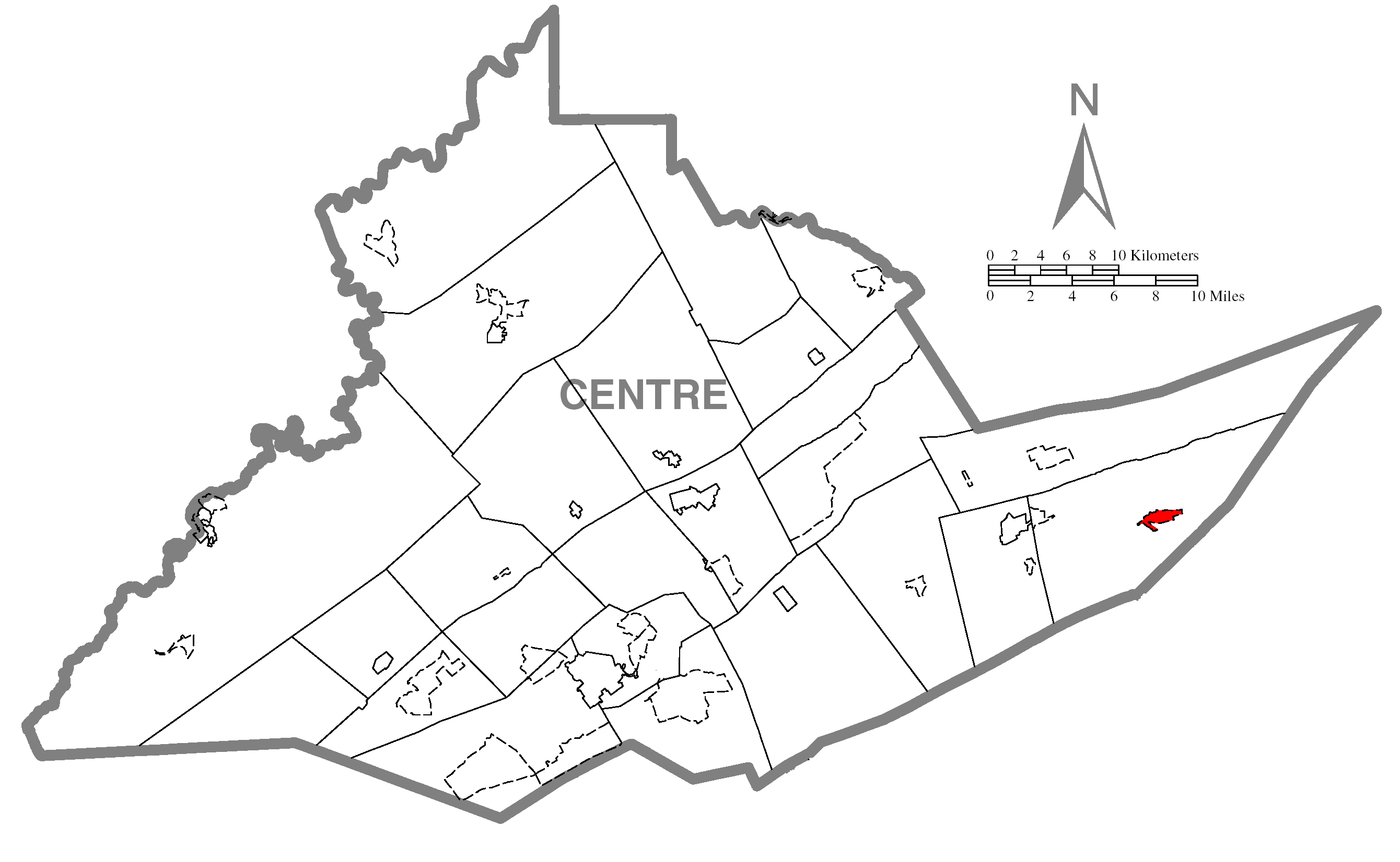 A map of Centre County showing Woodward, Pennsylvania (alternate) highlighted on the map.